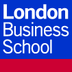 London Business School logo